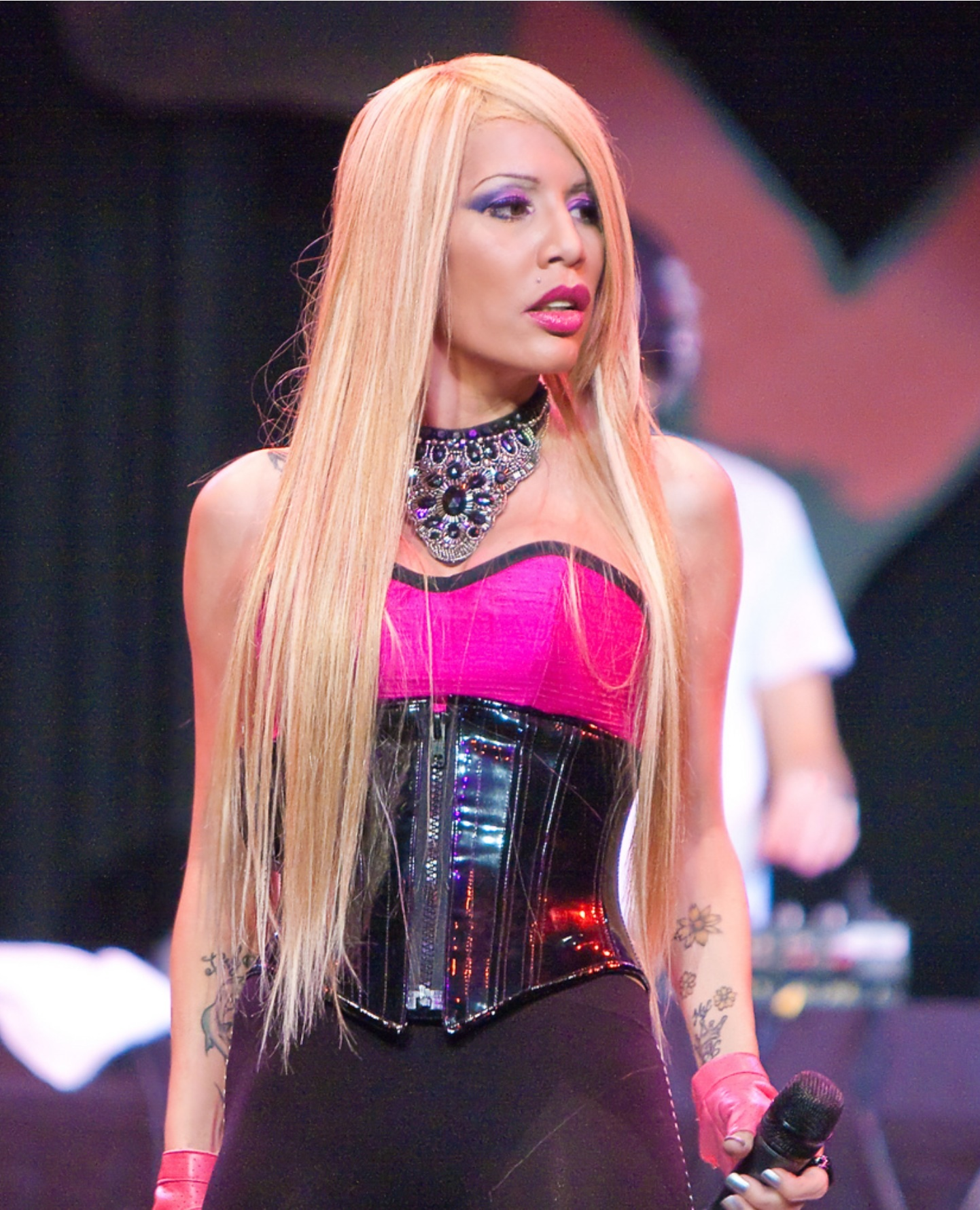 Ivy Queen at 98.1 FM La Mega's 10th Anniversary Concert at the House of Blues in Orlando, Florida on Friday, July 16th, 2010.